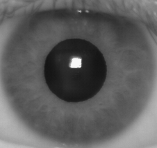 This is an NIR iris image that I captured during my M.Sc. period when I was in the University of Tehran, Iran.